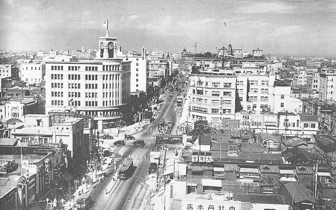 View of Ginza in 1930s